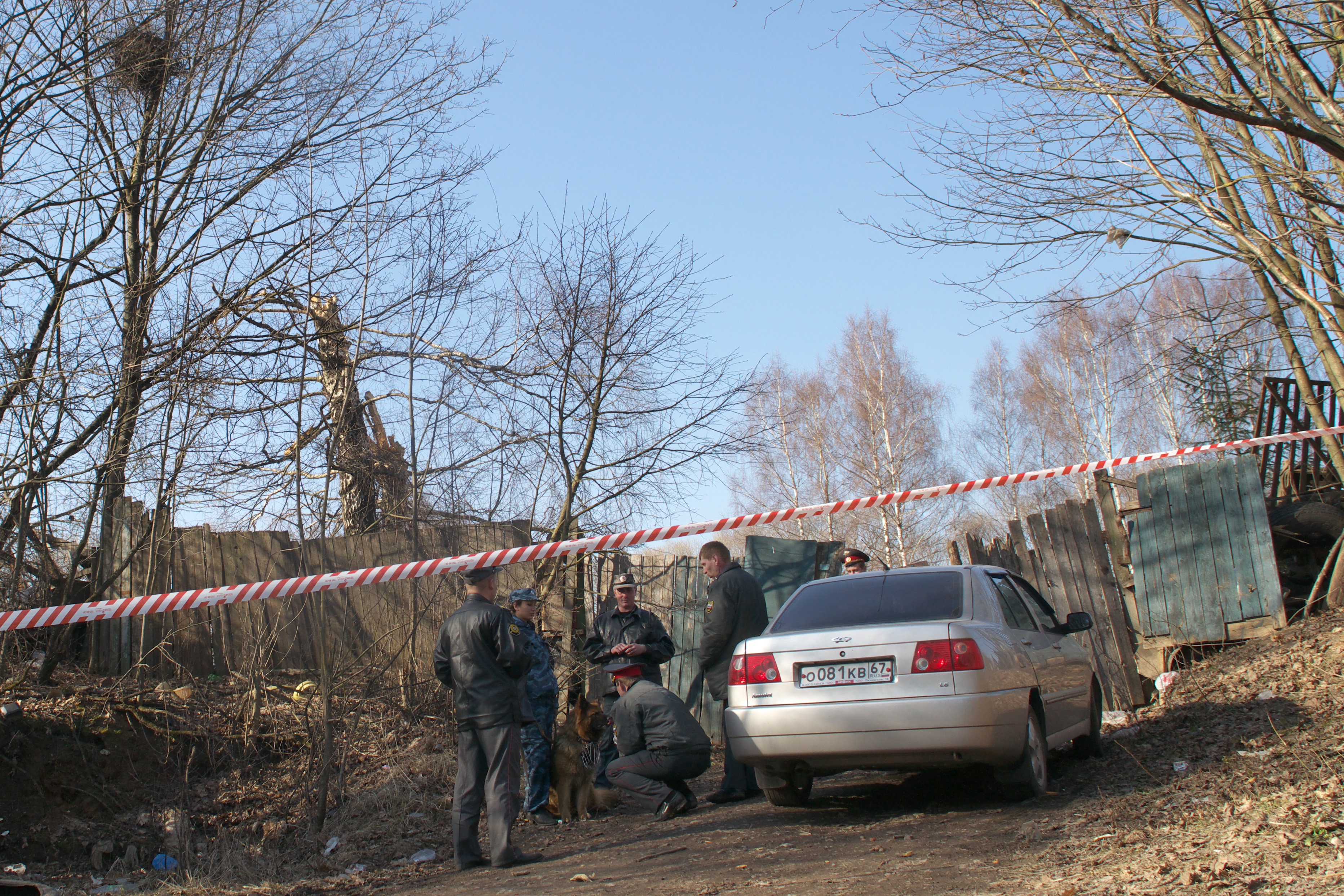 Presumed thick birch, which caught the Tu-154 of the Polish President